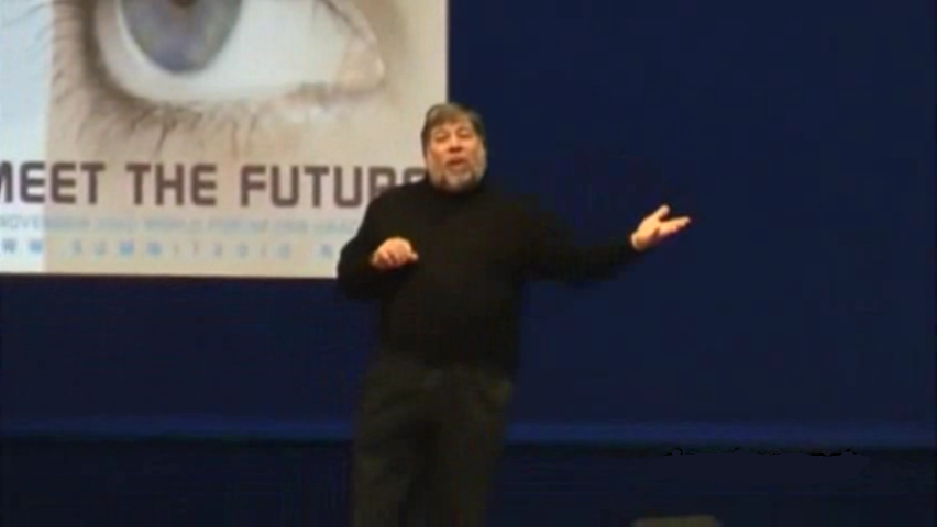 Speech by Steve Wozniak, from the Youtube video "Future Summit The Hague 2010 - my visit" uploaded by user daanbrg. The video has been released as "Licensed with CC-BY-SA 3.0 International." Relates to the 'Meet the Future, Science & Technology Summit 2010' article on the English Wikipedia. Website logo removed using MS Paint.